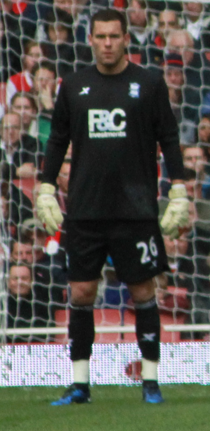 Arsenal v Birmingham City The Emirates 16 October 2010 (2-1)